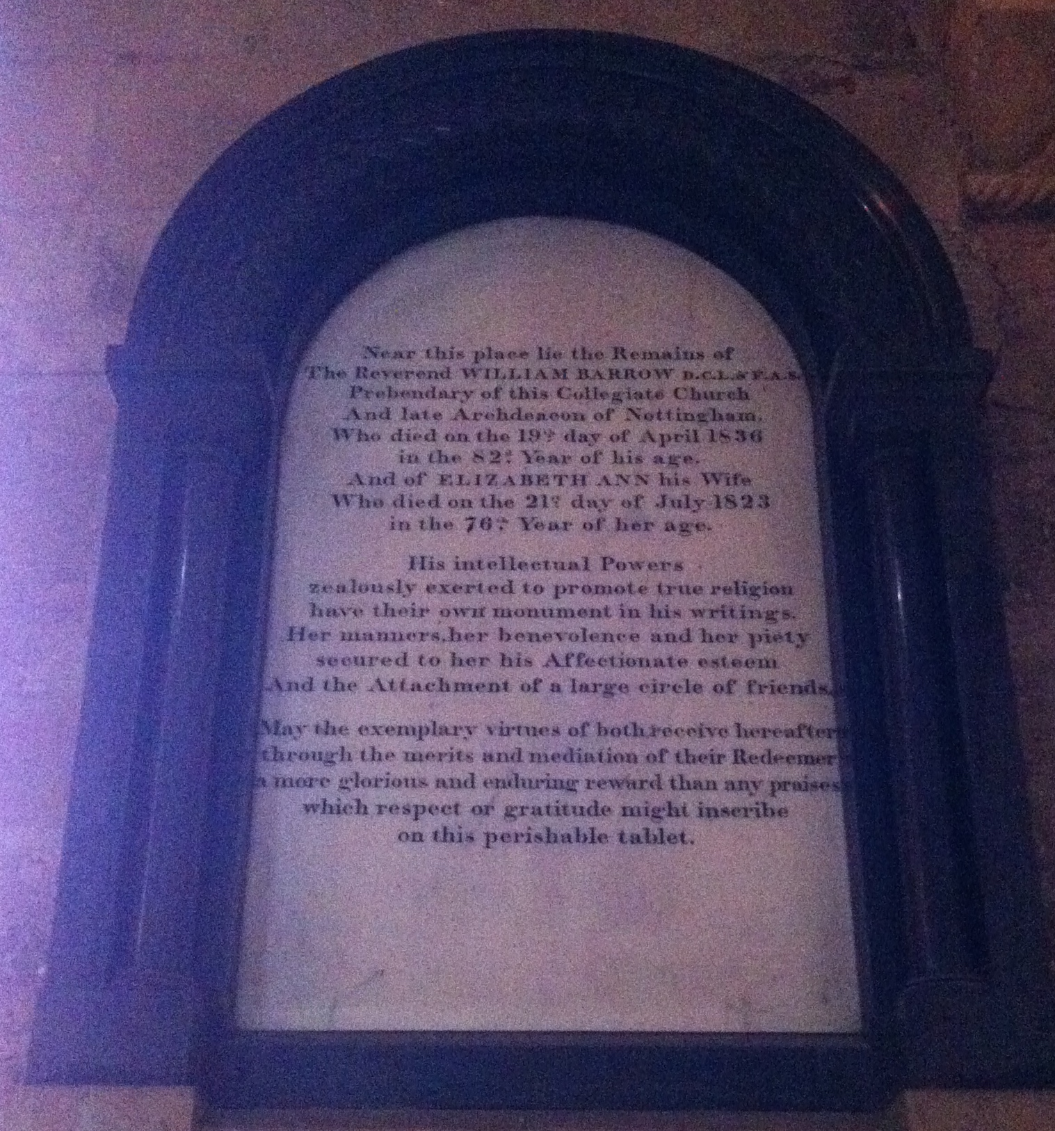 Reverend William Barrow, DCL, Prebendary of this Collegiate Church, and late Archdeacon of Nottingham, who died 19 April 1836 in the 82nd year of his age, and of Elizabeth Ann his wife, who died on the 21 July 1823 in the 76th year of her age.